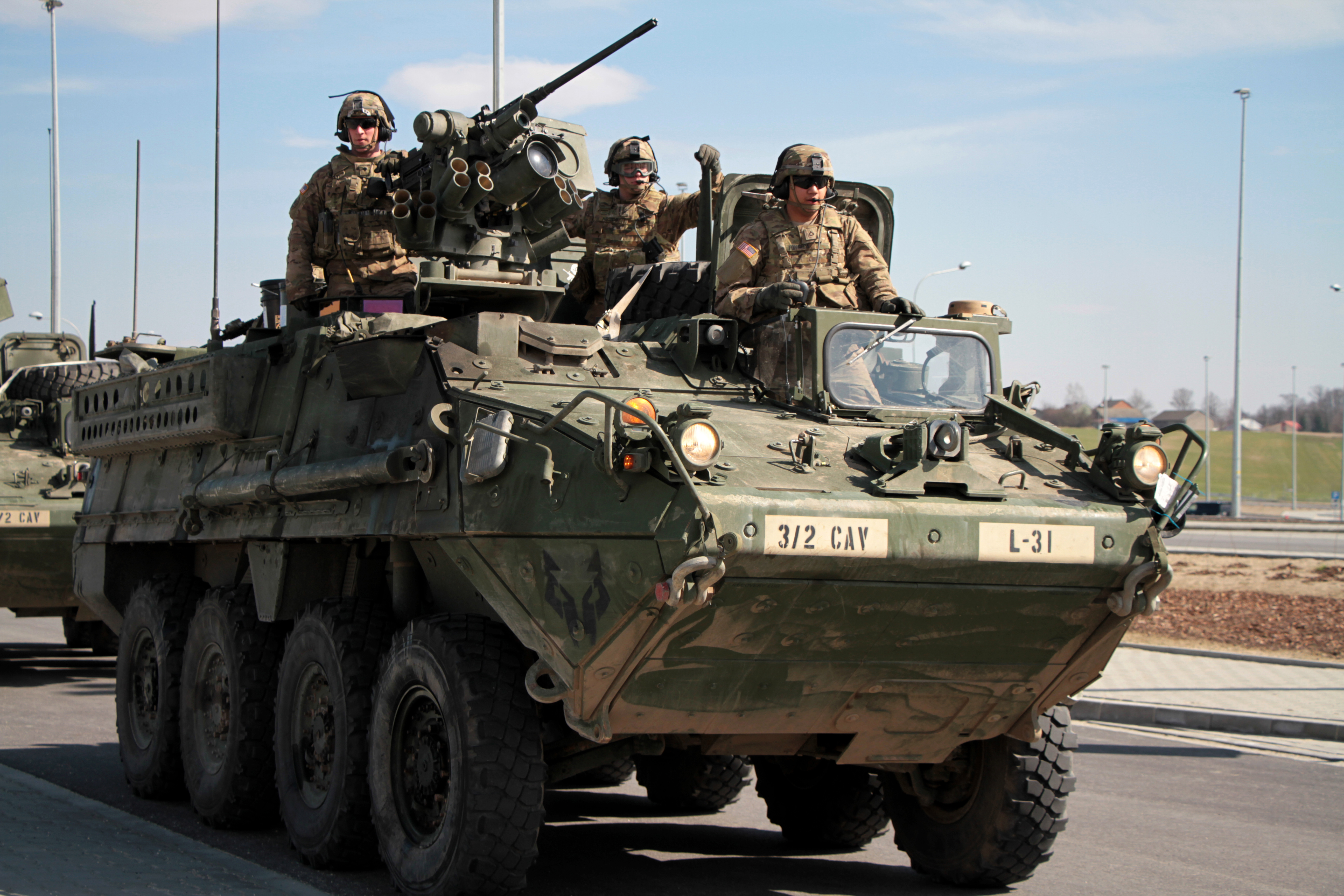 A Stryker Armored Vehicle from Lightning Troop, 3-2 Cavalry Regiment reaches the old city of Krakow on March 26 during Operation Dragoon Ride, a capstone exercise for the unit's rotation under Operation Atlantic Resolve. The 16th Sustainment Brigade and 18th Military Police Brigade are providing convoy support and escort for the infantry Soldiers' 1,800 km drive home to Vilseck, Germany. (U.S. Army photo by 1st Lt. Henry Chan, 16th Sustainment Brigade public affairs, 21st Theater Sustainment Command)